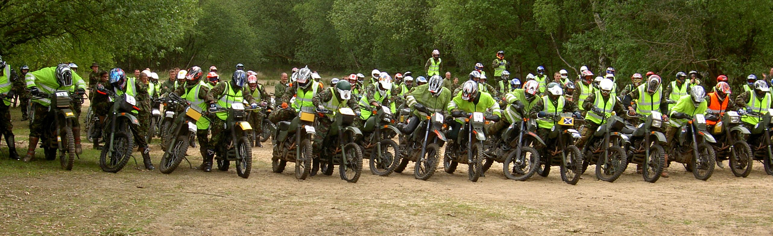 Some events have a mass "le mans" start, typically "Hare and Hounds" type events.